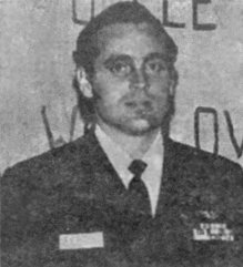 George Thomas Coker shortly after his release from the POW camps in North Vietnam, March 1973. Other versions: en::Image:GeorgeCokerMarch1973.jpg